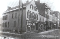 1890 photograph of Quackenbush House, Albany, NY